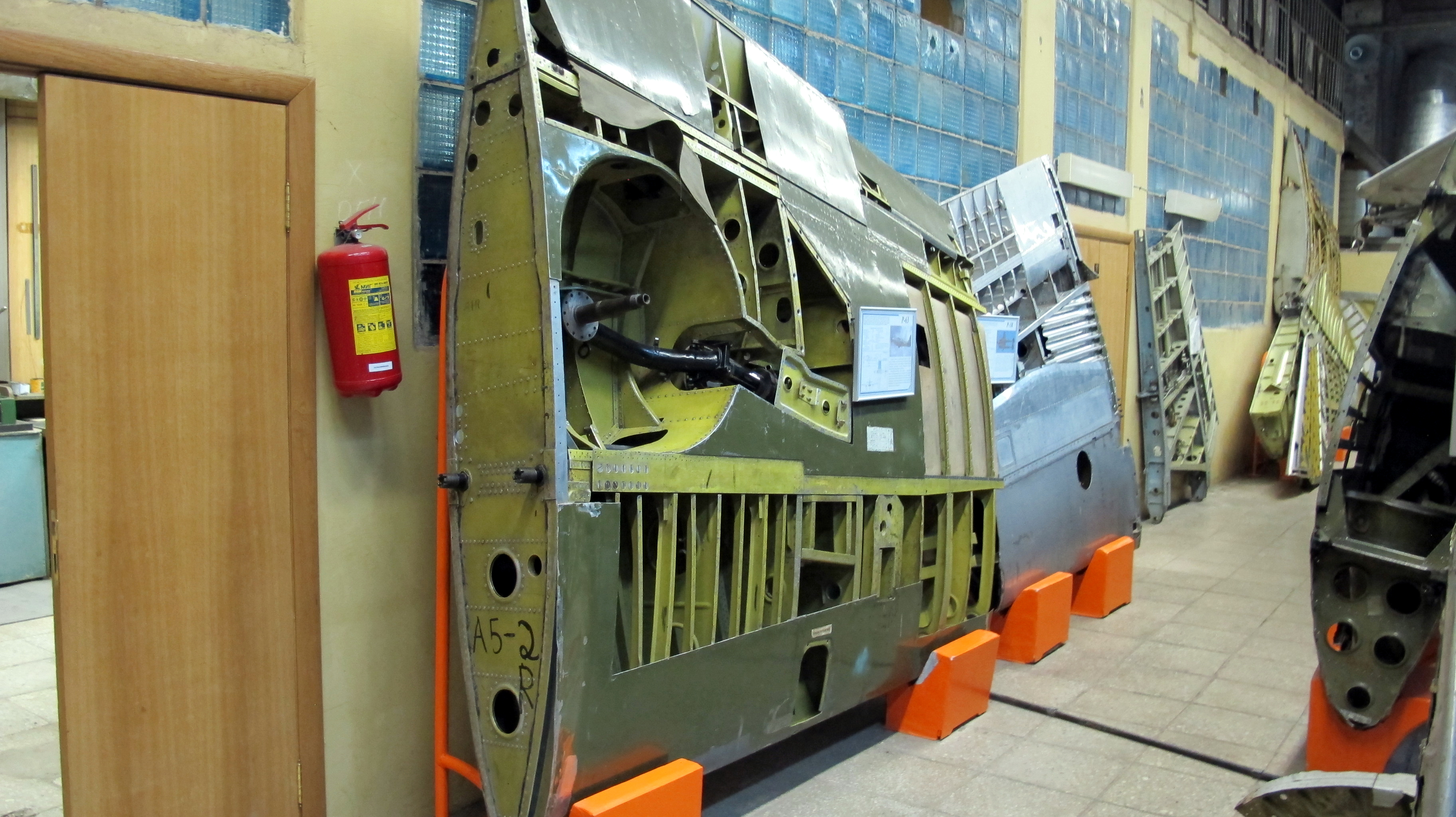 Wikitrip to MAI museum 2016-02-02